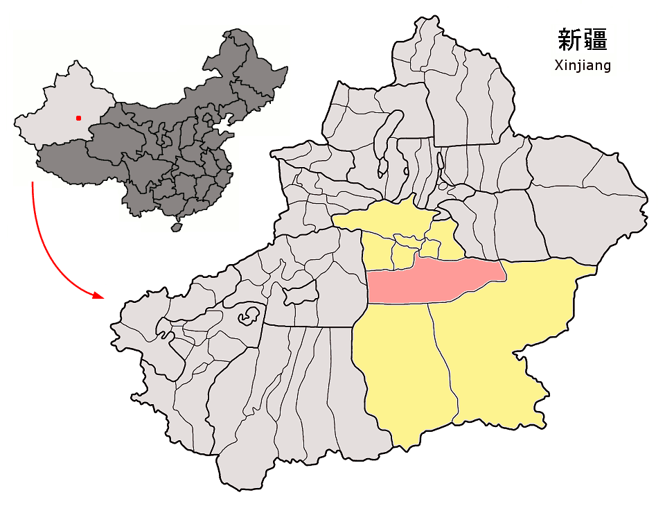 Location of Yuli County (pink) and Bayin'gholin Prefecture (yellow) within Xinjiang autonomous region of China Map drawn in september 2007 using various sources, mainly : Xinjiang Uygur autonomous region administrative regions GIS data: 1:1M, County level, 1990 Xinjiang Counties map from